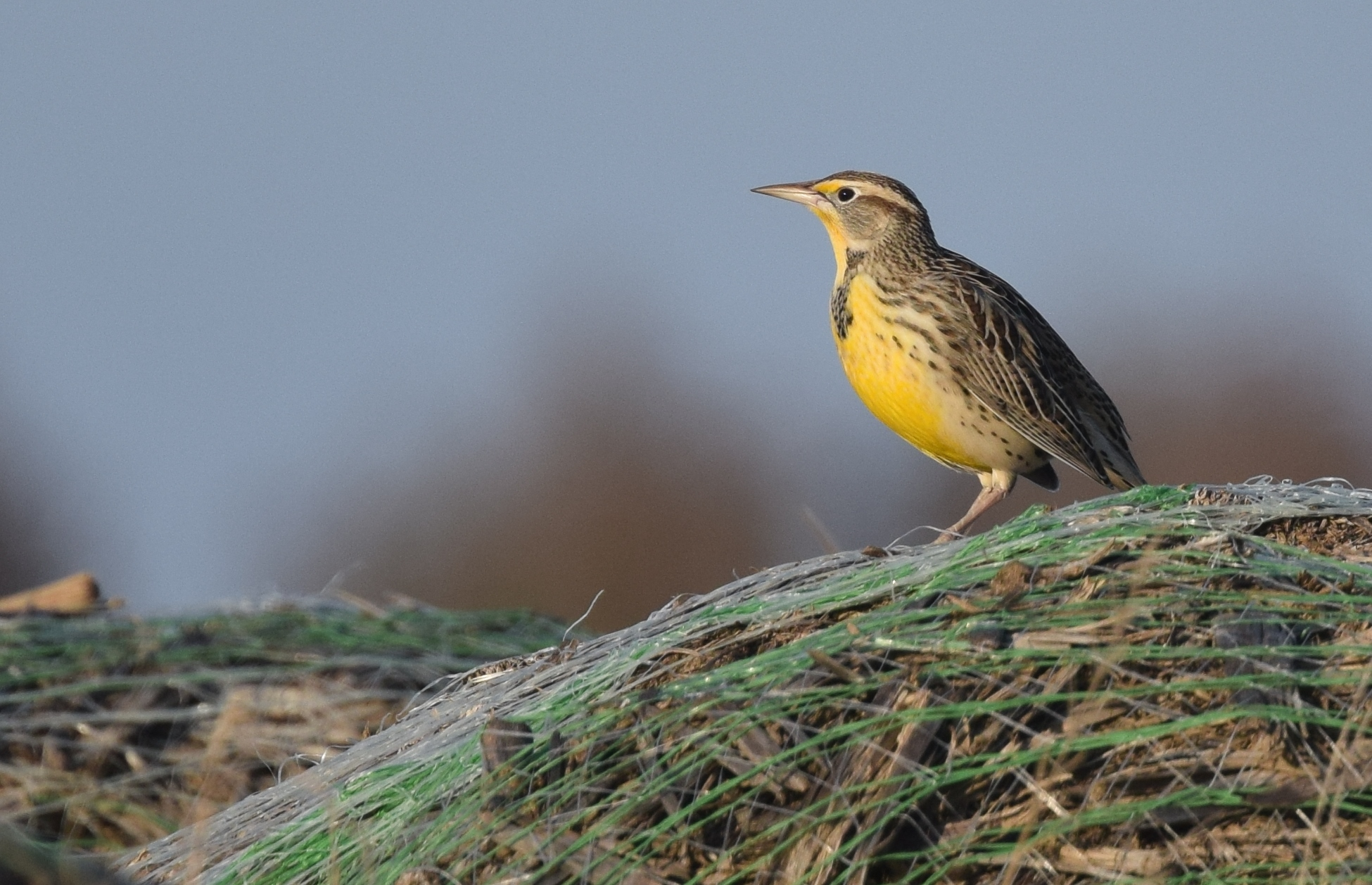 Bethel Prairie area